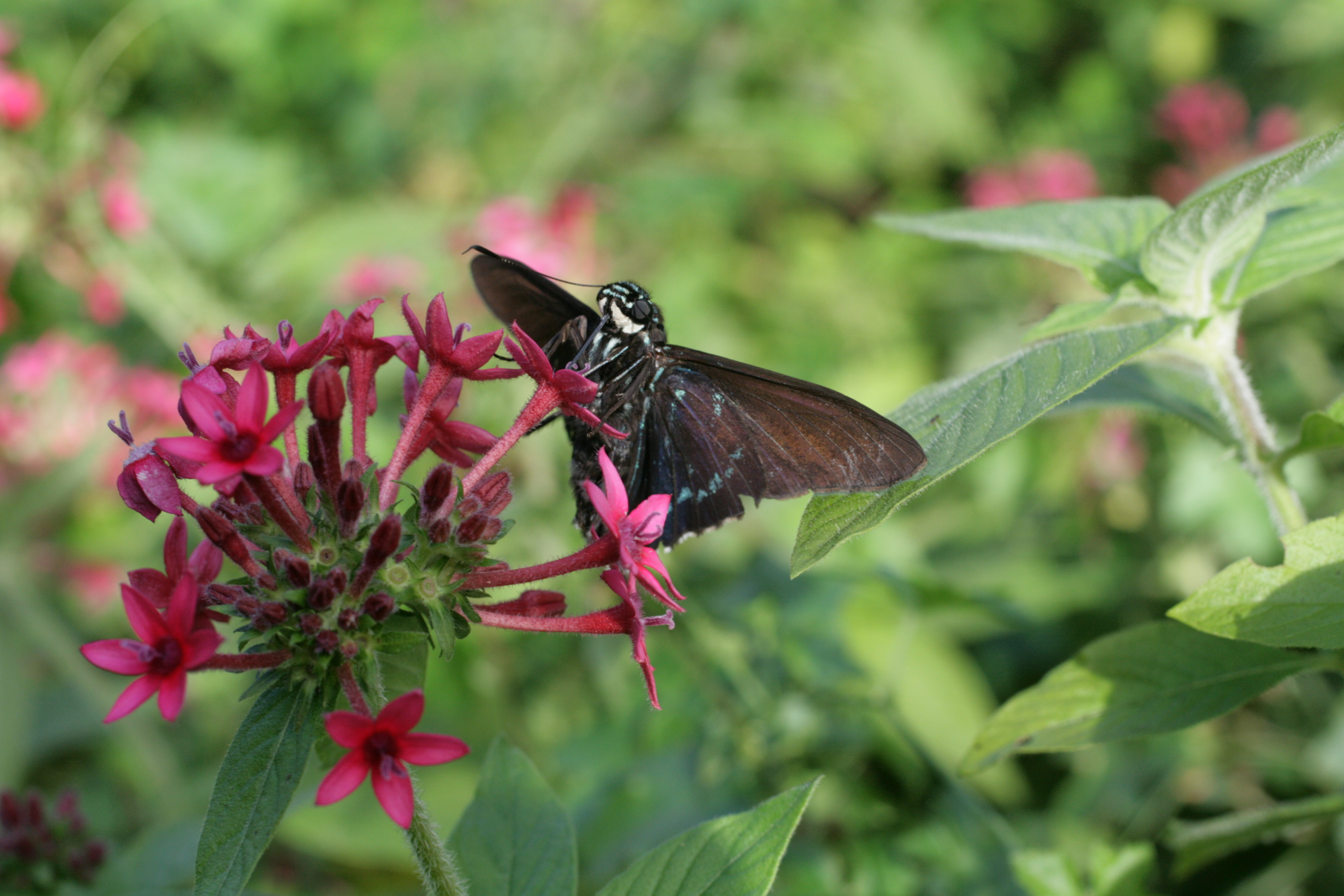 Mangrove skipper, Phocides pigmalion seen in the butterfly island in secret Woods Nature Center in Florida.